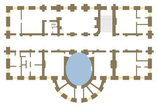 White House ground floor showing location of the Diplomatic Reception Room. 27.02.07, Jim Hood.